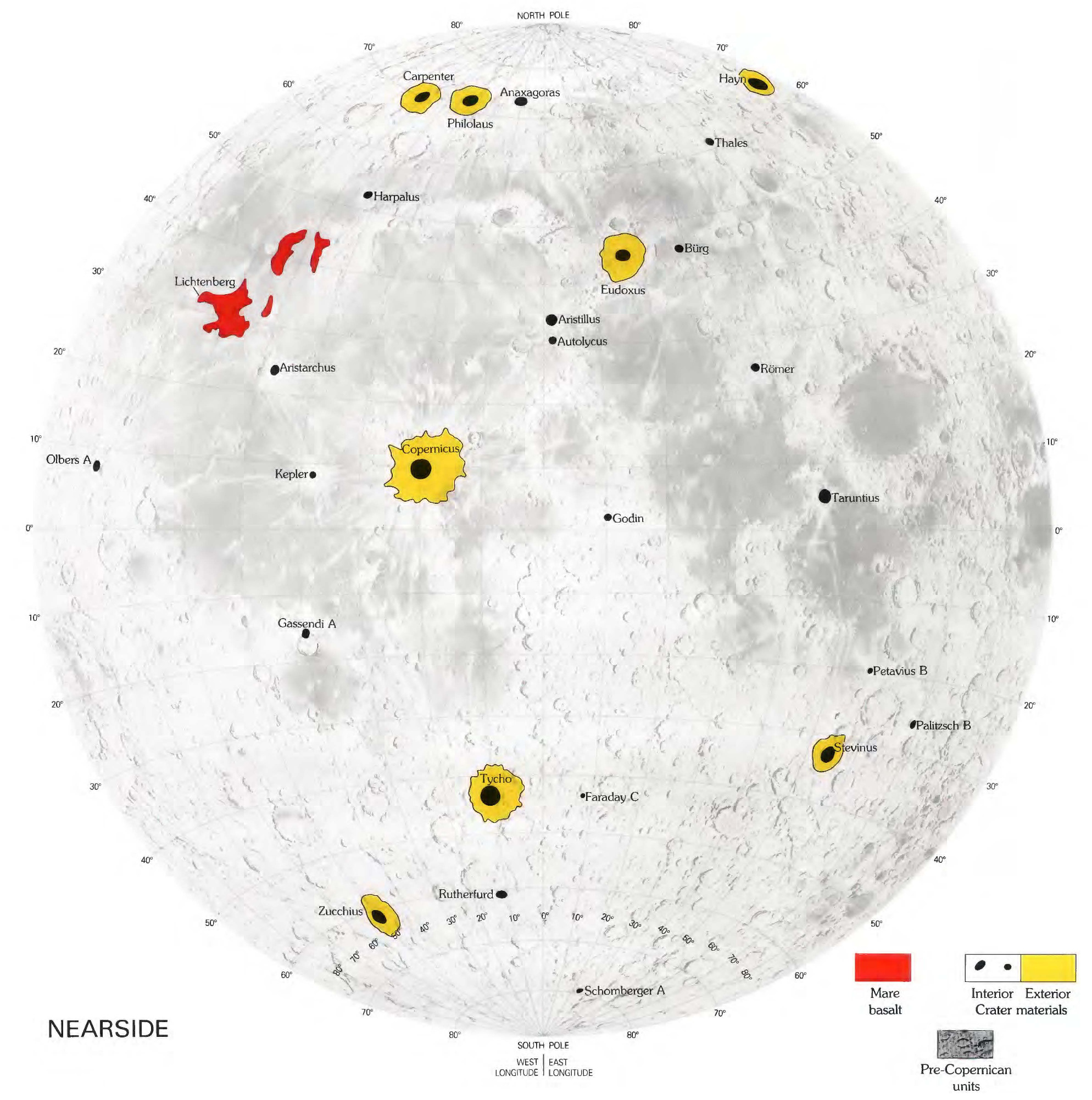 Map of the Copernican System on the near side of the moon. This is edited in minor ways from Plate 11A of The geologic history of the Moon by Donald Wilhelms (1987).